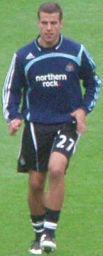 Steven Taylor. Image cropped from original at flickr.